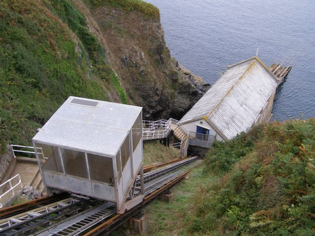 Lizard RNLI lifeboat station, Kilcobben Cove. The RNLI lifeboat is launched from the boathouse down the slipway into the sea - and in fact had done so just a few minutes earlier. The cliff railway connects the boathouse to the crew station, although the visiting public is invited to use the steps. The lifeboat station was opened here in 1961, the location was chosen because it was sufficiently protected to allow safe launching in all conditions. The old lifeboat station around the Lizard headland at Polpeor Cove (see 218998) was too exposed, making launching difficult and dangerous in certain conditions.